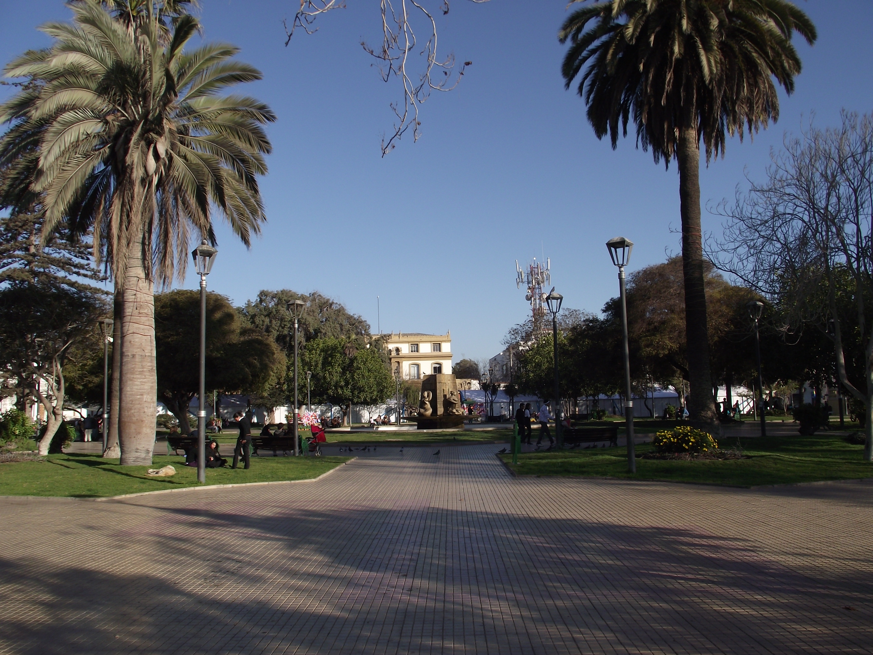 La Serena Town Square, seen from Prat street.